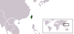 Location map of the Republic of Taiwan